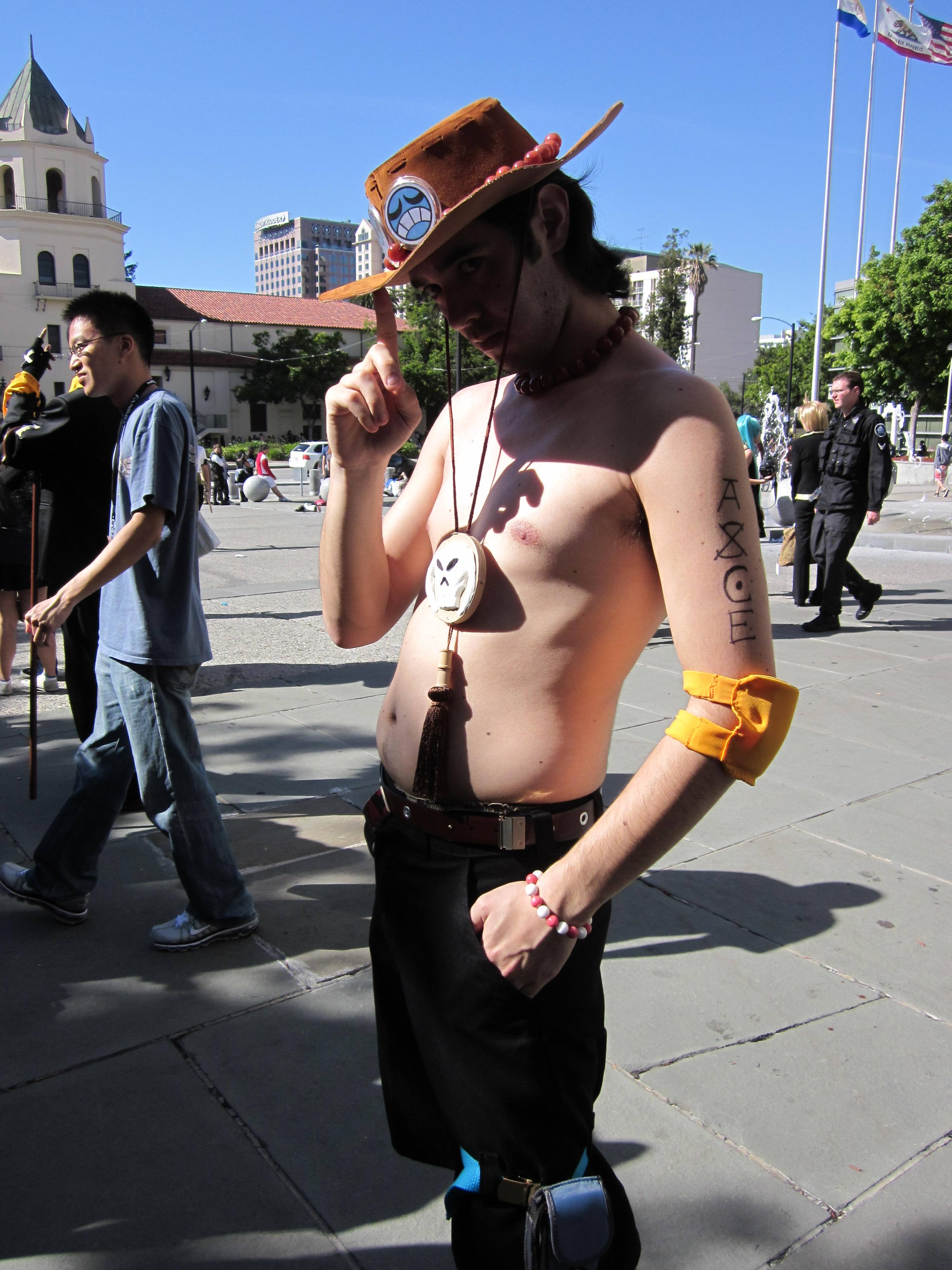 A cosplayer portraying Portgas D. Ace from One Piece at FanimeCon 2010 in San Jose, California.